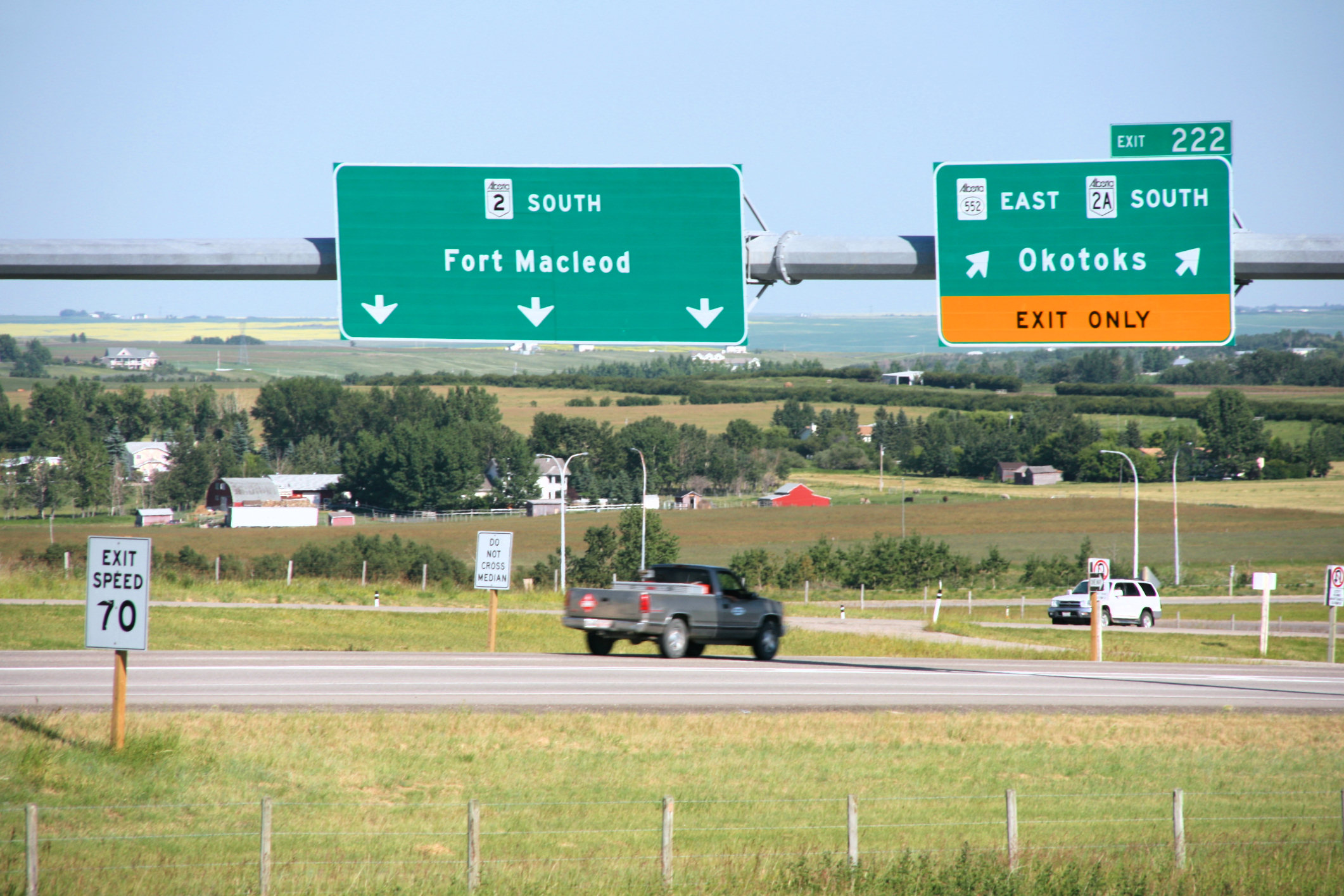 Alberta Highway 2 - exit 222. Canada.